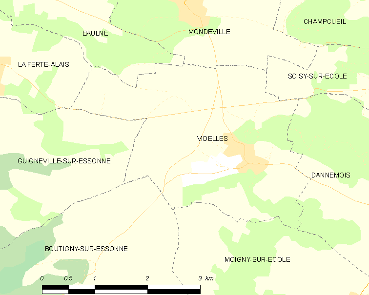 Map of French municipality Videlles